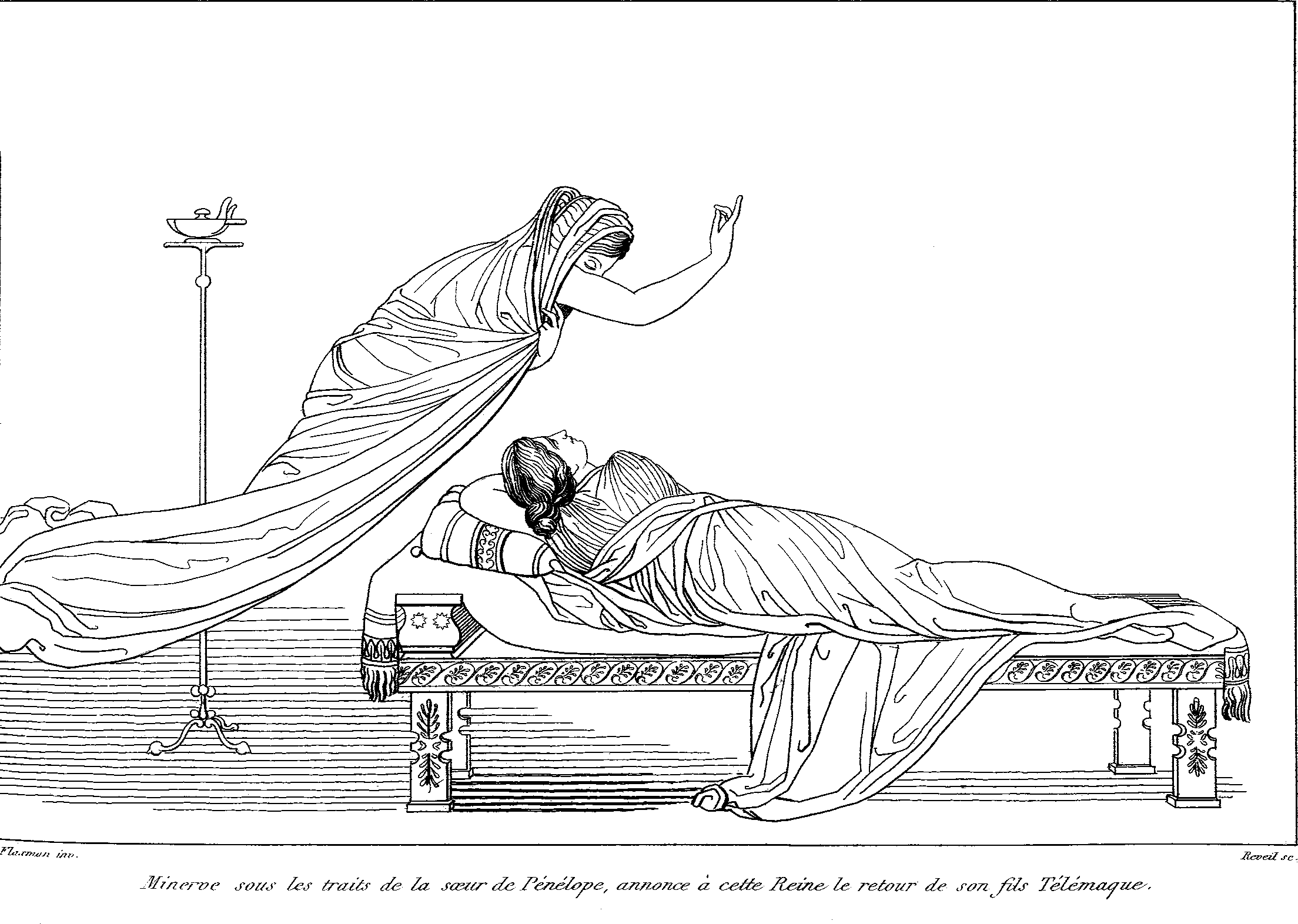 Illustrations of Odyssey